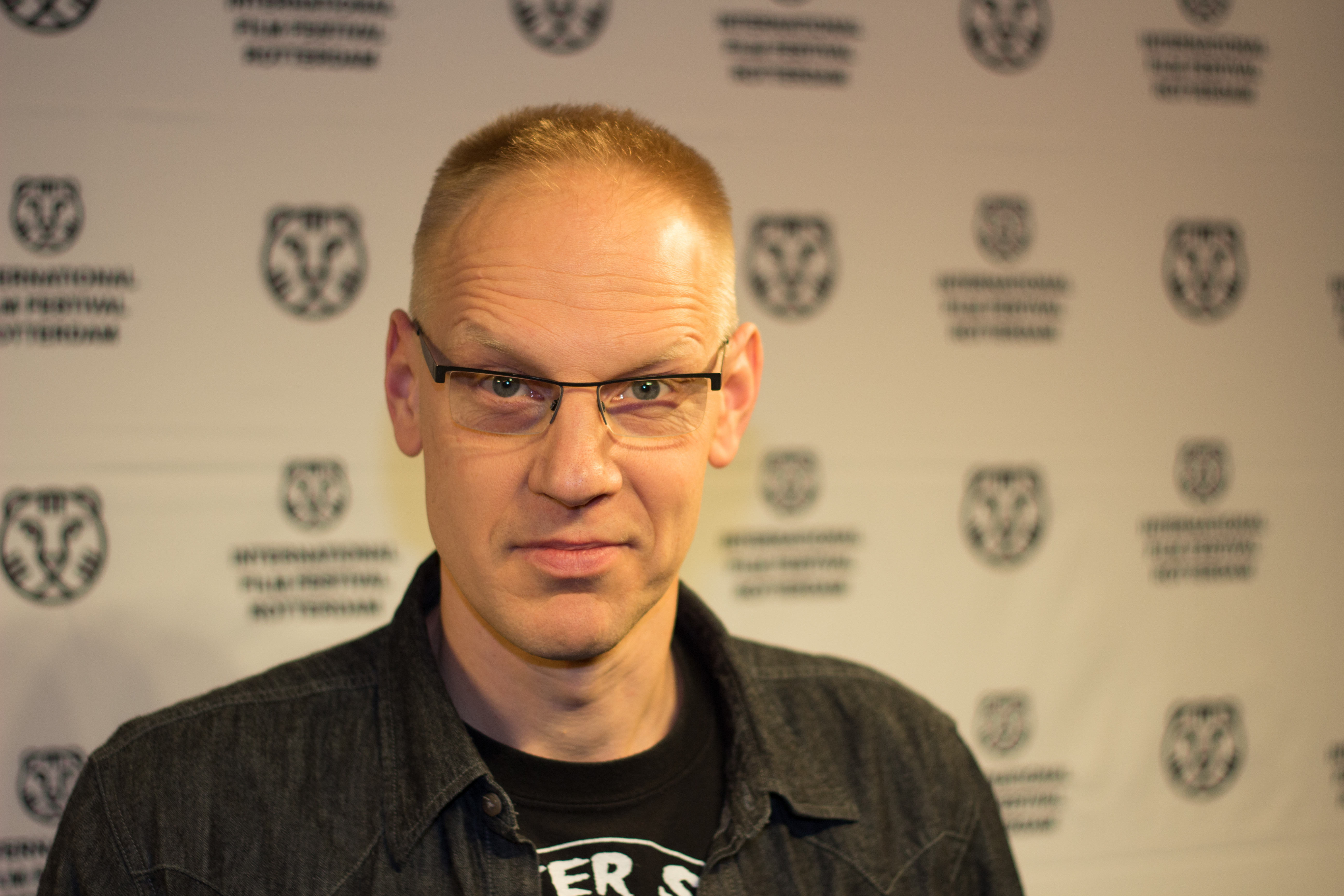 German Angst cast & crew (and friends) Directors Jörg Buttgereit, Michal Kosakowski, Andreas Marschall Production country & year Germany - 2015 Length 110 min Premiere World premiere Producer Michal Kosakowski, Andrea Staerke Screen play Anna Bonasso, Jörg Buttgereit, Andreas Marschall, Goran Mimica With Milton Welsh, Daniel Faust, Denis Lyons, Annika Strauss, Matthan Harris, Andreas Pape, Desiree Giorgetti Camera Sven Jakob Editor Michal Kosakowski, Andreas Marschall Production design Jörg Möhring Sound design Dieter Hebben, Lukas Lücke Medium DCP Website